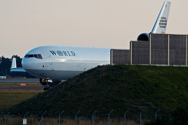 An Aircraft (McDonnell Douglas MD-11) from World Airways on the airfield of the airport Leipzig/Halle (Germany)